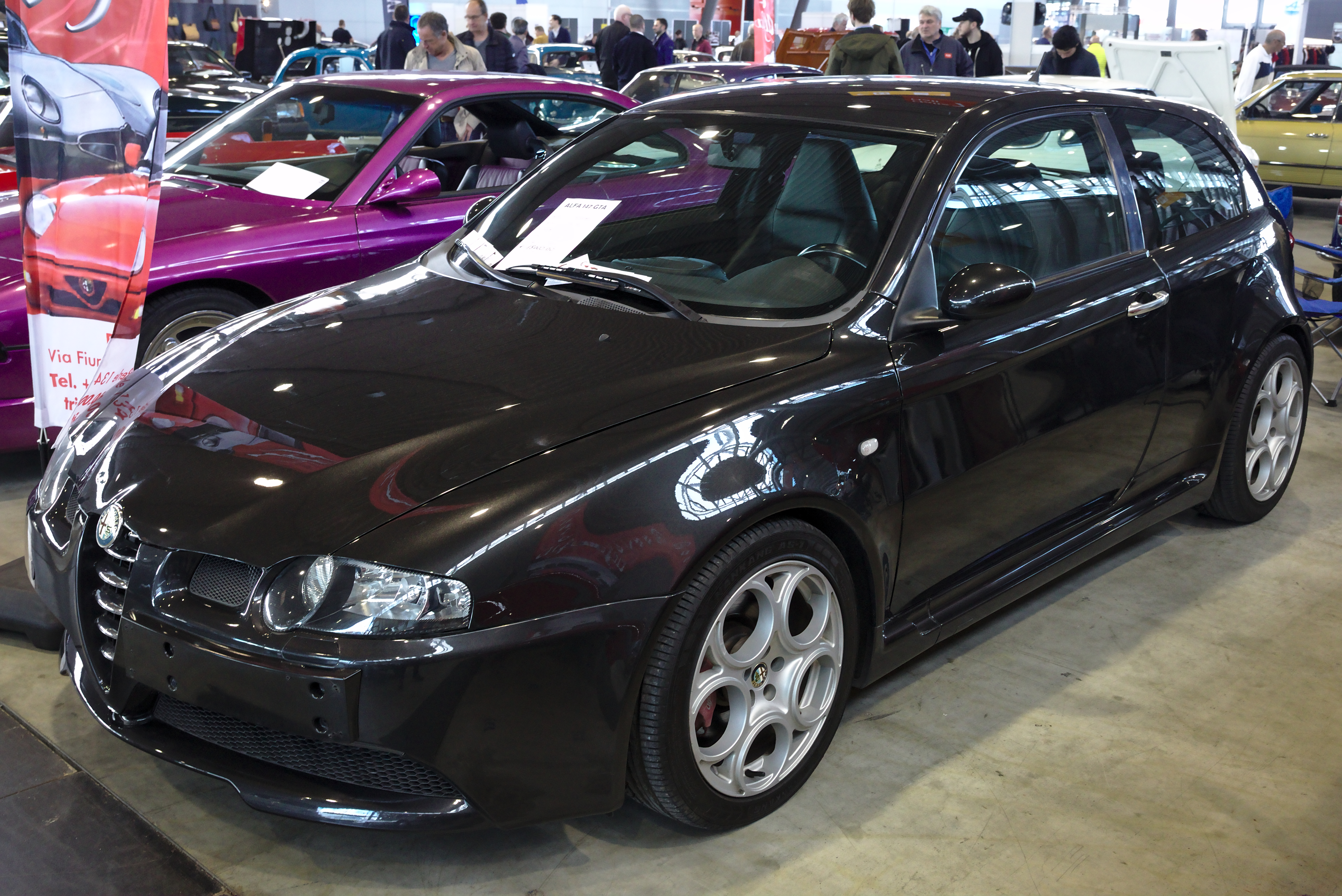 Alfa Romeo 147 3.2 GTA V6 24V at Retro Classics 2019